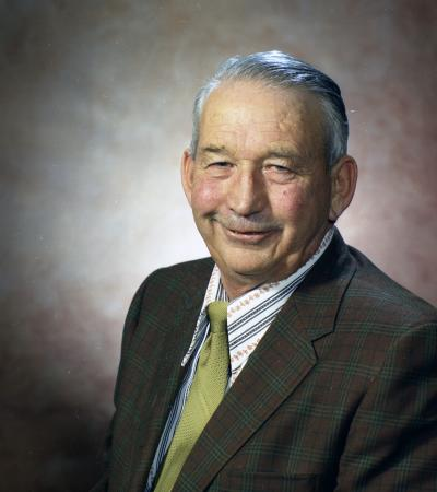 Representative Frank "Tub" Hansen